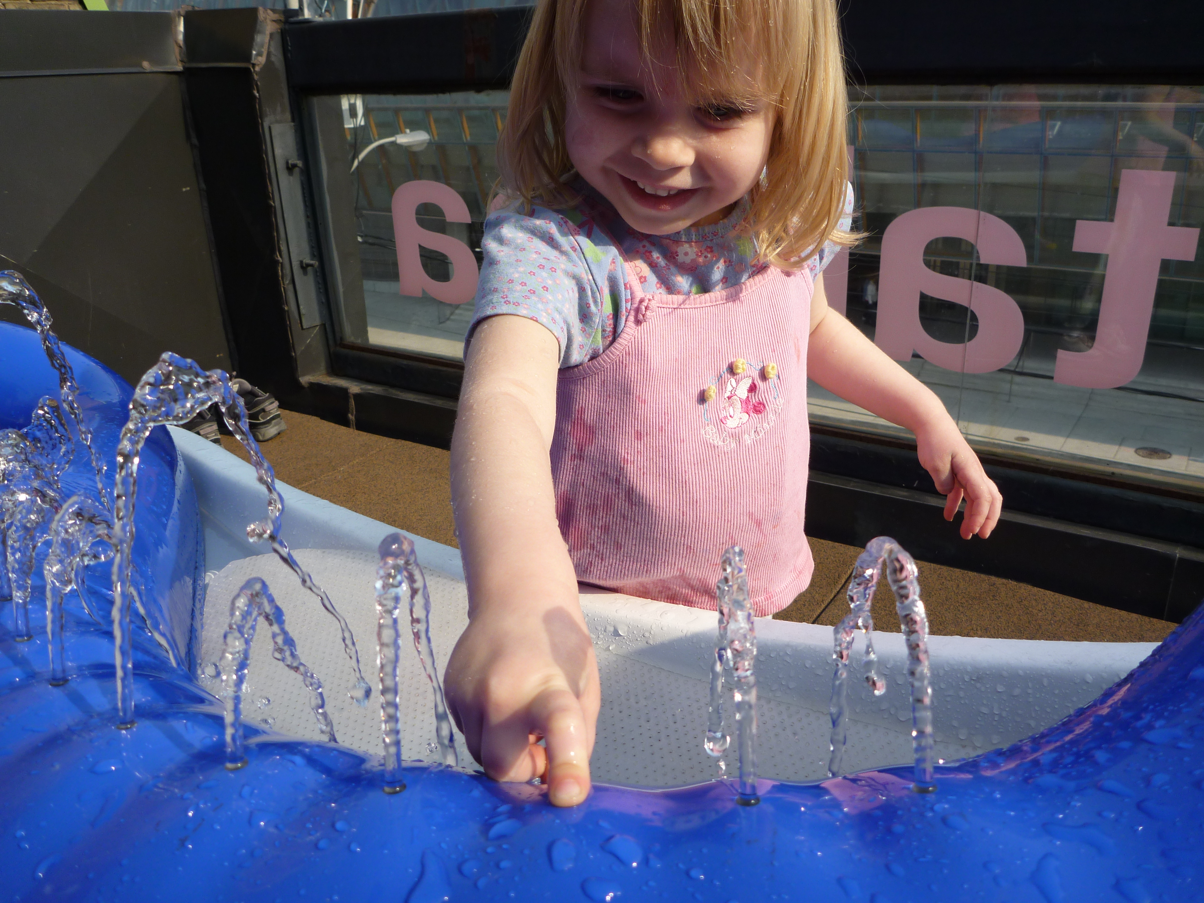 A young musician plays on a hydraulophone, the world's first instrument that makes music with water.